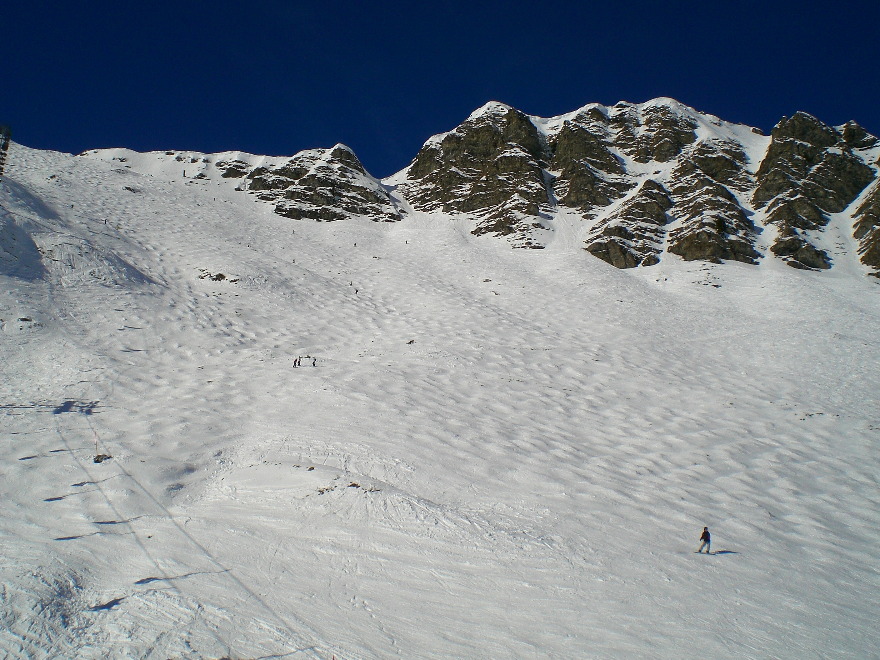 Picture taken by Ale de Vries